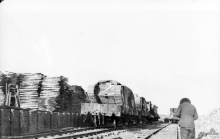 France: Picardie, Somme, Bazentin. Loaded onto flat cars, several damaged tanks wait near Pozieres, France, to be transported by light rail for repairs.